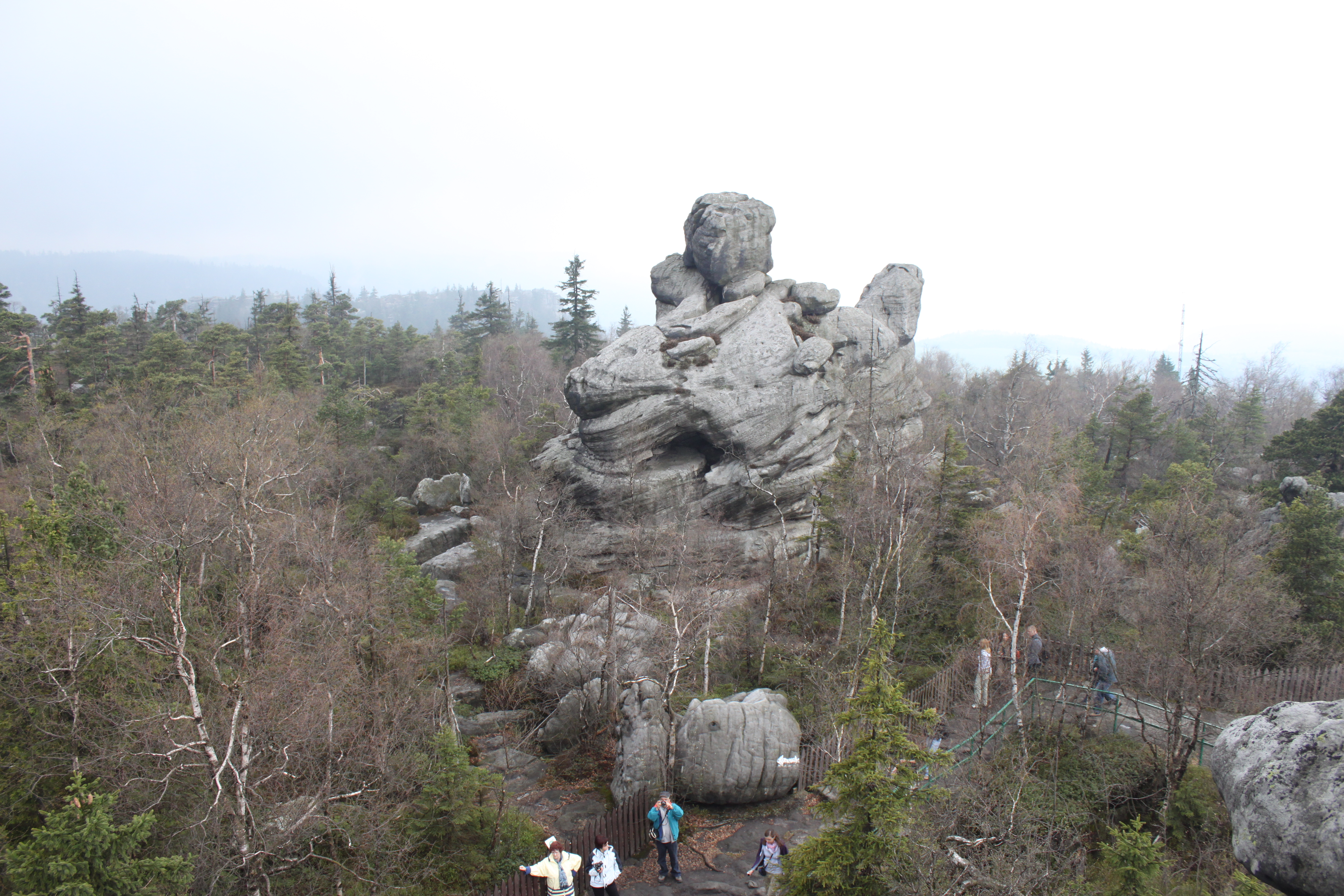 "Horse Head Rock" on Szczeliniec Wielki, Stołowe Mountains, Poland